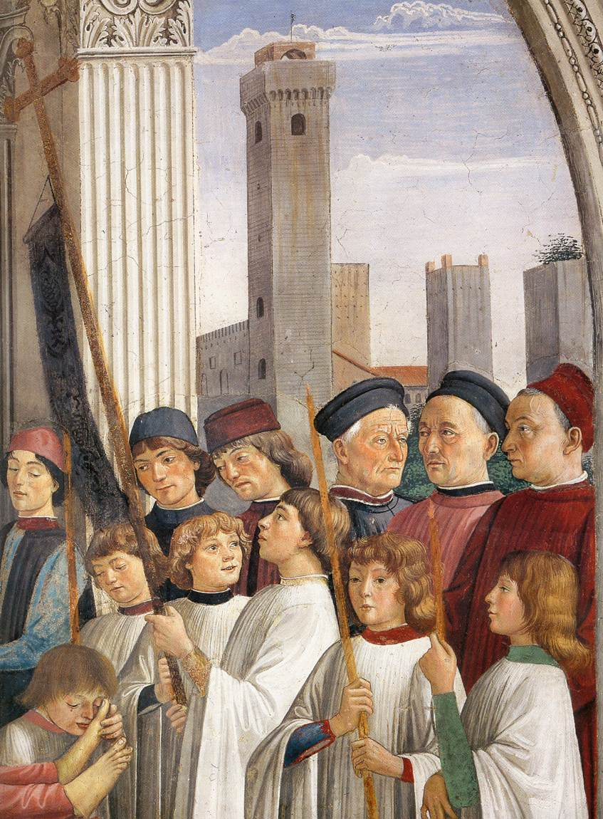 Ghirlandaio, Obsequies of St Fina (detail)